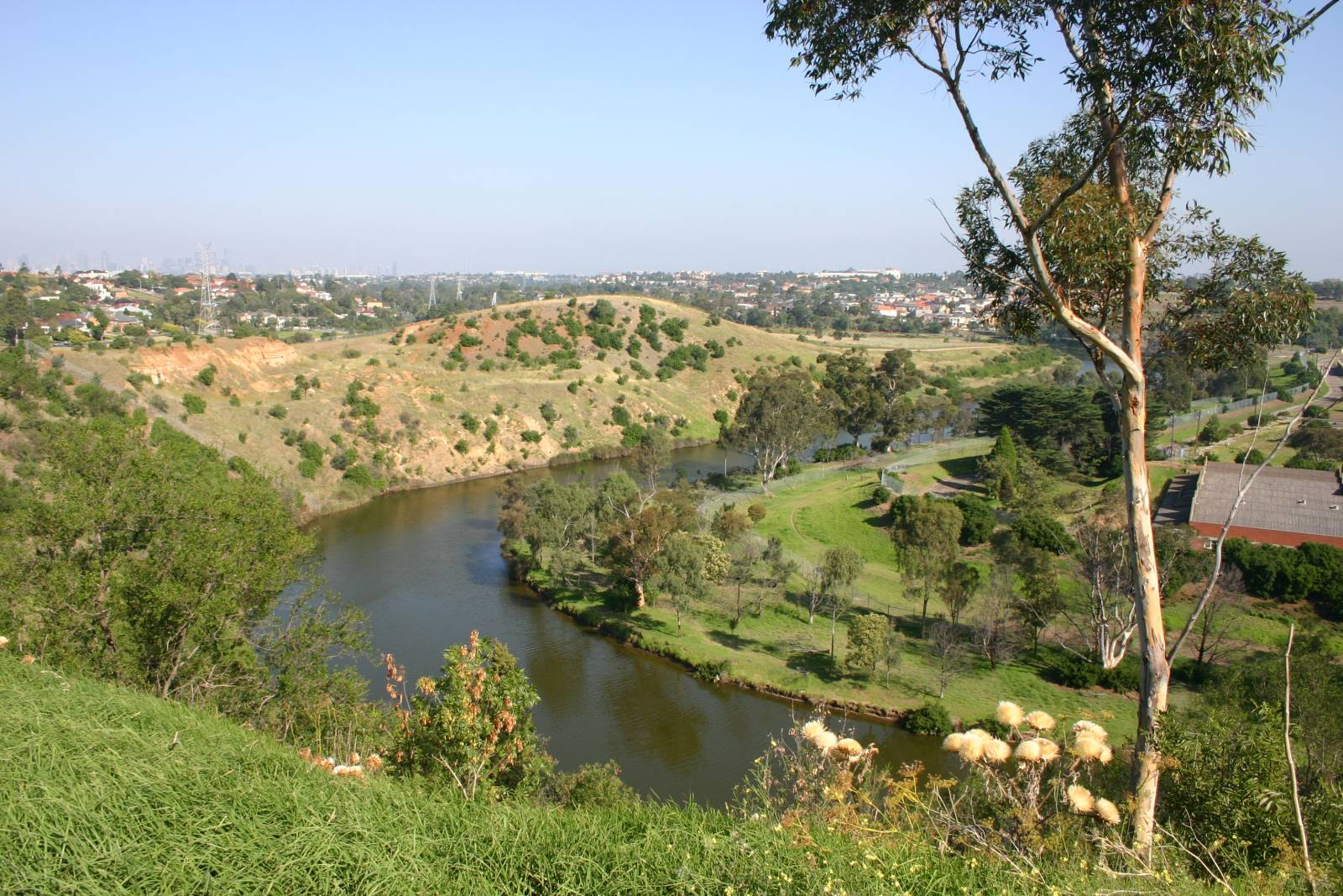 Maribyrnong River at West Essendon looking towards Melbourne CBD. Photo by Takver ( taken on 14 March 2005. Released under the GNU FDL licence.